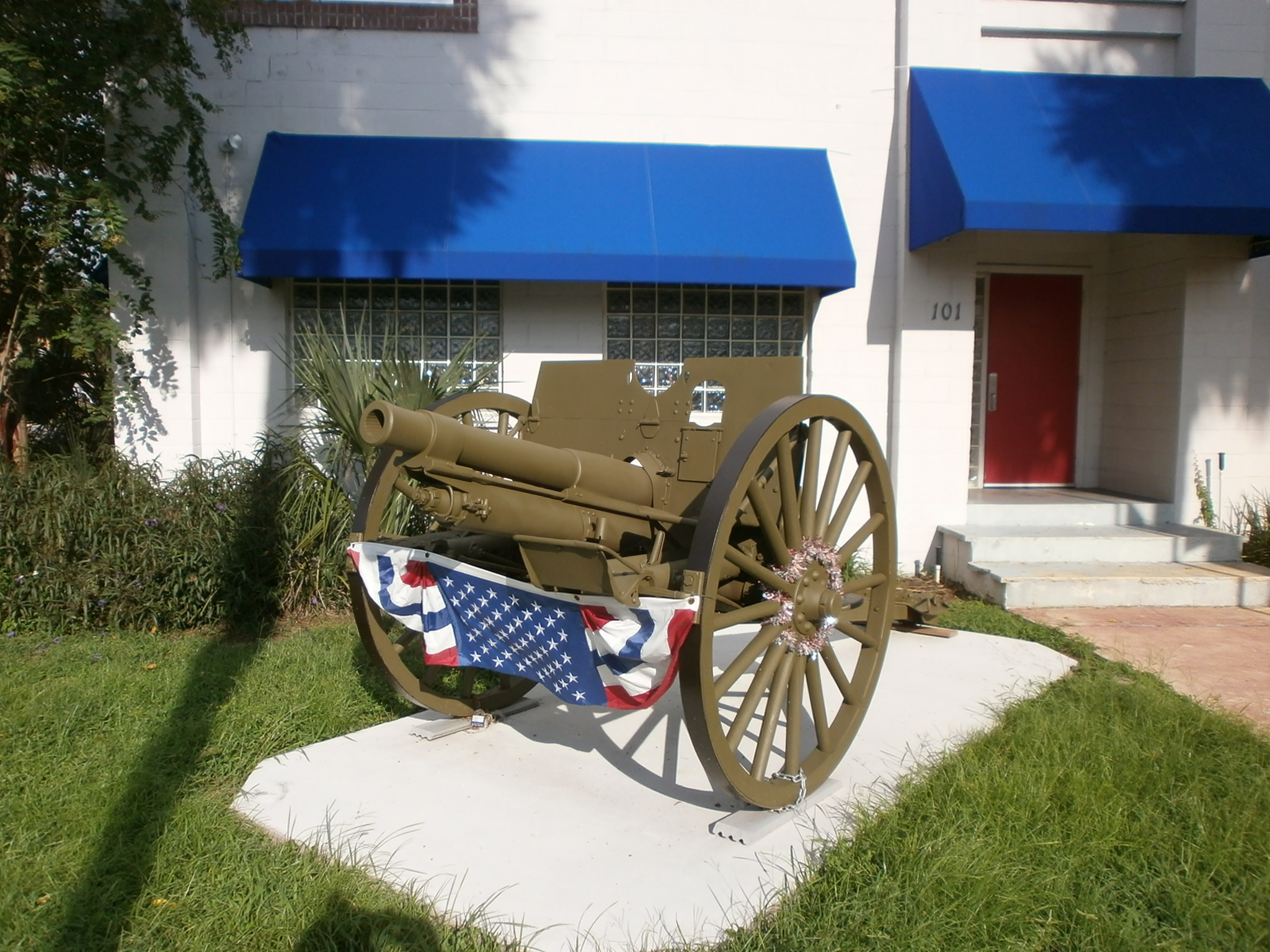 3-inch M1902 field gun Number 56, made in the Rock Island Arsenal in 1905, sitting in a static Display in front of the American Legion Hall Post 41, 101 S. Bay Street, Eustis, FL